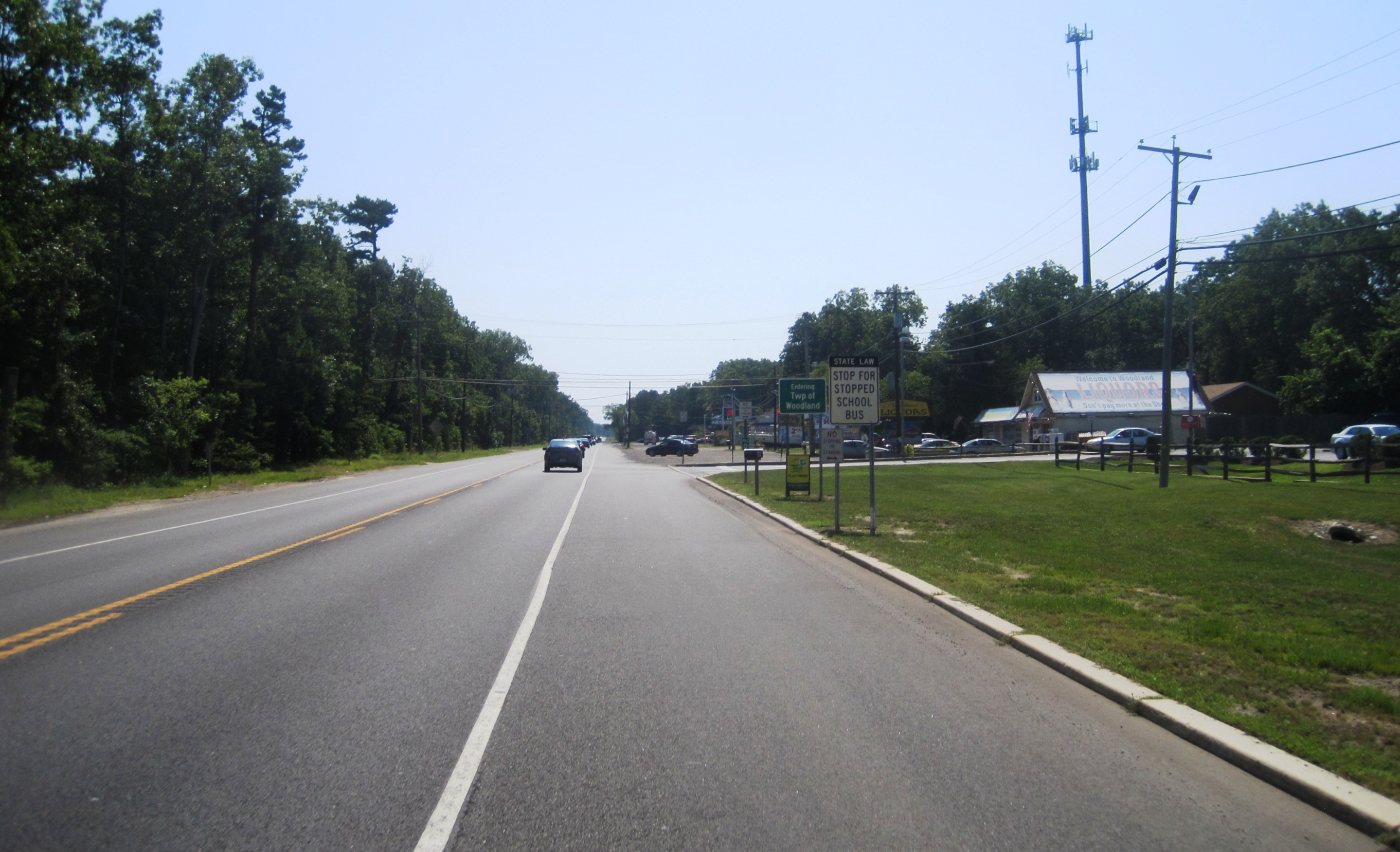 Photo showing the commercialized area of the unincorporated community of Four Mile, New Jersey. Photo taken after the western terminus of New Jersey Route 72 (photo vantage point looking southeast) in Woodland Township within the New Jersey Pine Barrens.